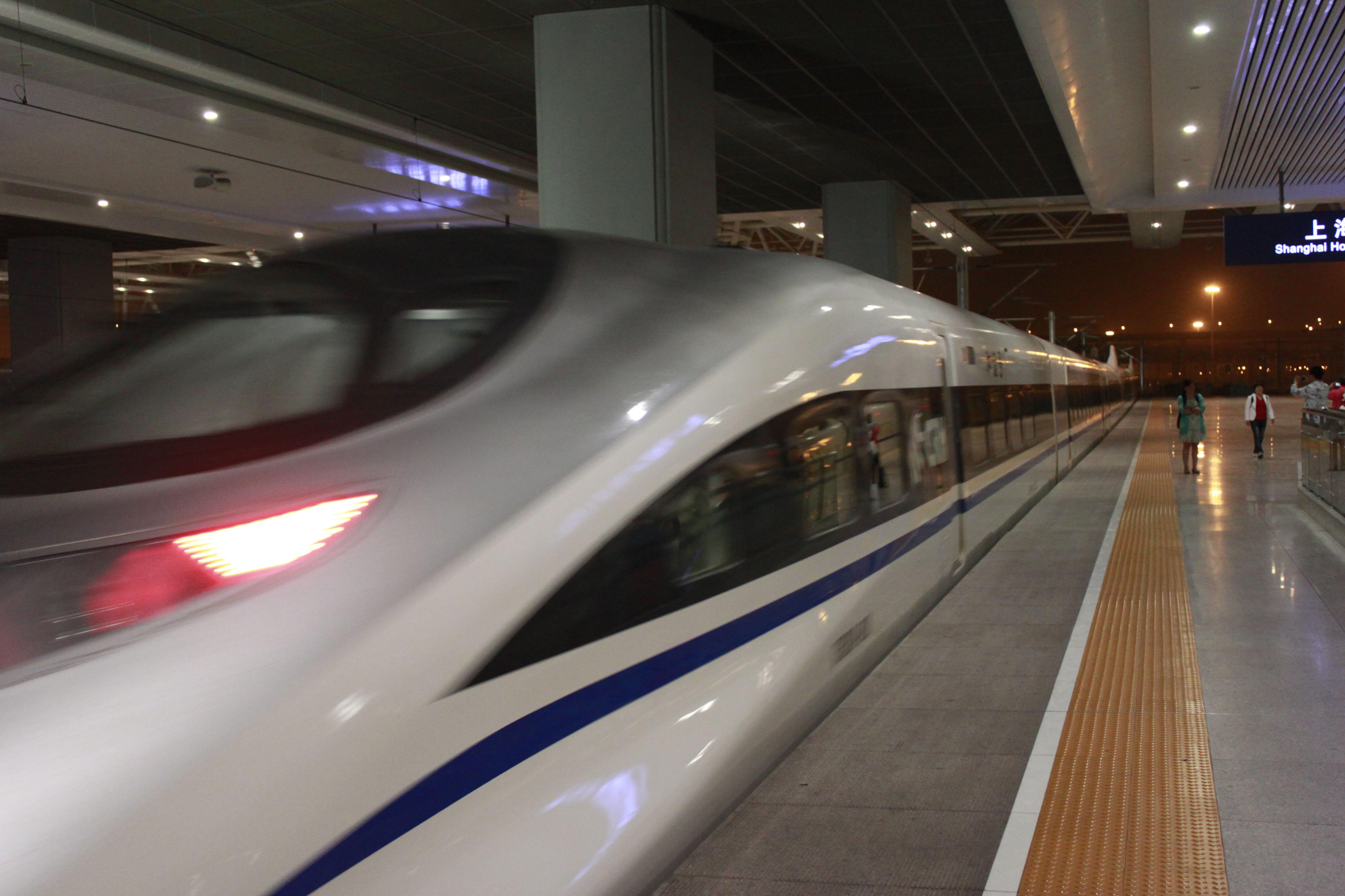 CRH380A leaving Shanghai Hongqiao Station for Hangzhou